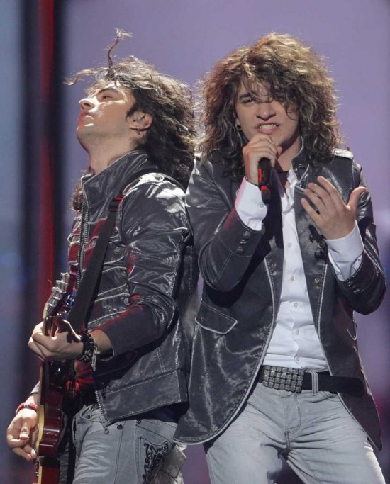 Macedonian rock band Next Time with their performance of "Neshto shto ke ostane" at Eurovision 2009